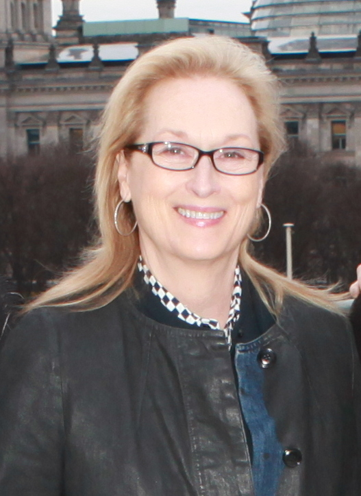 Meryl Streep is Welcomed to the Embassy by Ambassador and Mrs. Emerson